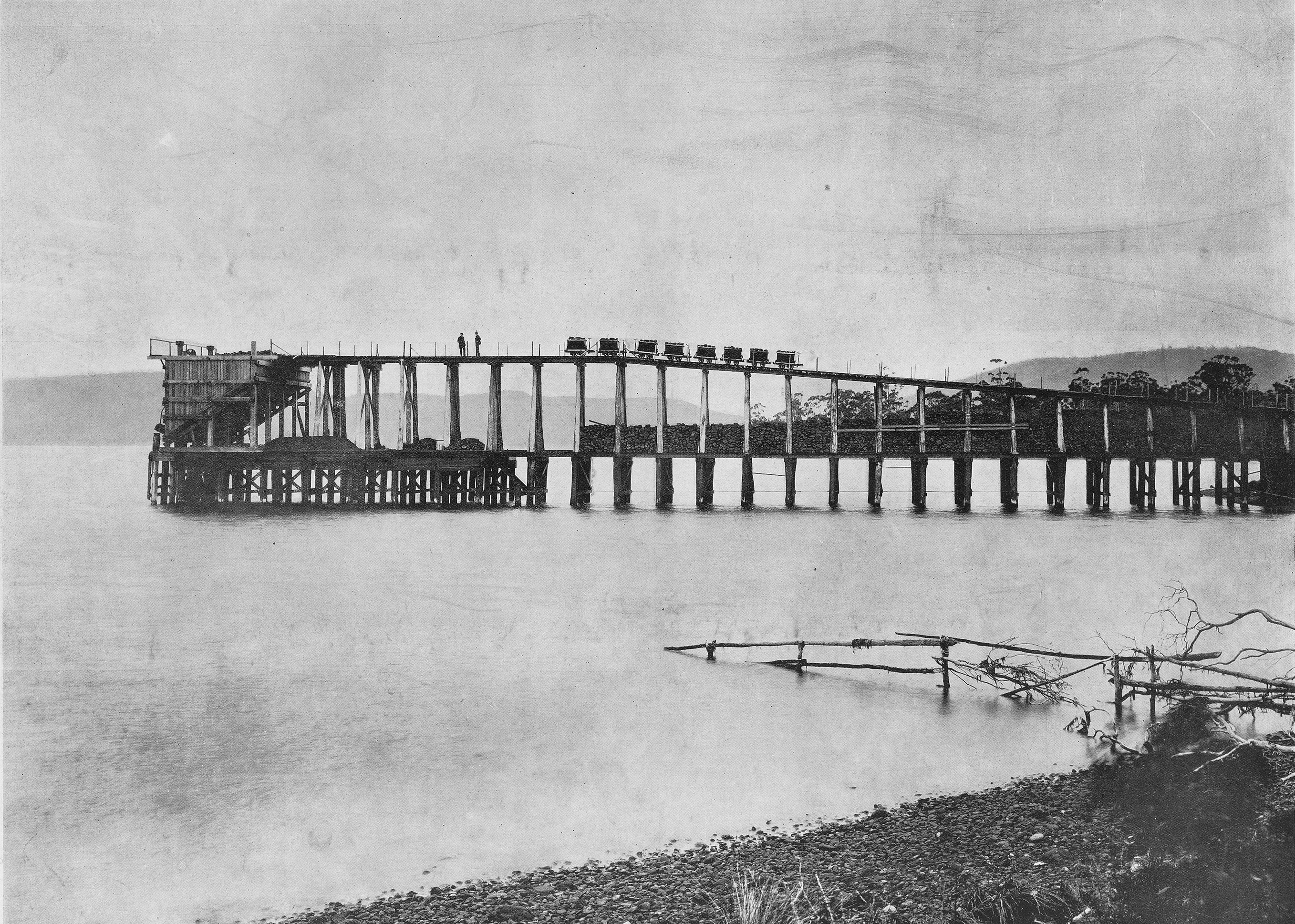 The Sandfly Colliery and Tramway. The jetty on North West Bay near Margate. Beattie photo